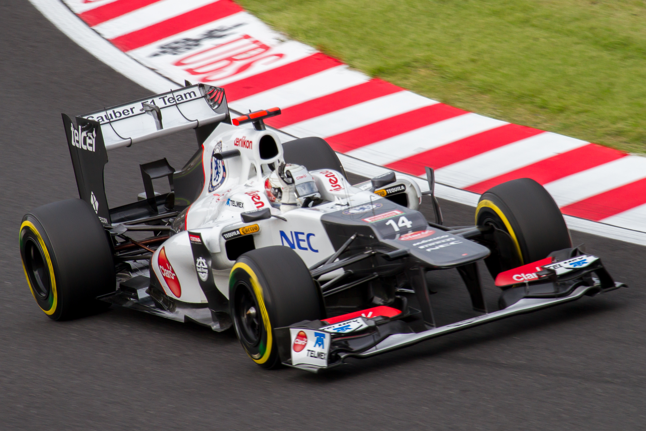 Formula One 2012 Rd.15 Japanese GP: Kamui Kobayashi (Sauber) celebrates taking 4th position in the third qualifying session.